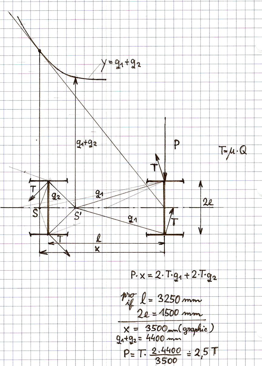 Heumann´s theory applicated on a two axle bogie. Moment of steering force P must be balanced with the moments of friction forces on each wheel T. The task is solved graphically. S´ is estimated centre of rotation of the bogie, q1 and q2 are levers of friction forces T. In upper part is a curve as function of the sum q1 + q2 and it responds to the moments of friction forces which depend on the position of the rotation centre. The line from the middle of the first wheelset touches the curve in the point, which determines the real position of the centre of rotation of the bogie - point S. Based on Česky: Heumannova grafická metoda vyšetření velikosti řídící síly a středu otáčení podvozku při průjezdu obloukem. S´ je obecná (možná) poloha středu otáčení podvozku, q1 a q2 ramena třecích sil T mezi kolem a kolejnicí. Křivka v horní části je součtem q1+q2 v závislosti na poloze S´ a vyjadřuje tak moment potřebný k natočení podvozku, pokud má být střed otáčení v daném bodě S´. Tečna k této křivce, která prochází středem prvního dvojkolí je vyjádřením momentu řídící síly P. Bod dotyku obou křivek udává polohu skutečného středu otáčení podvozku při průjezdu obloukem. Zdroj